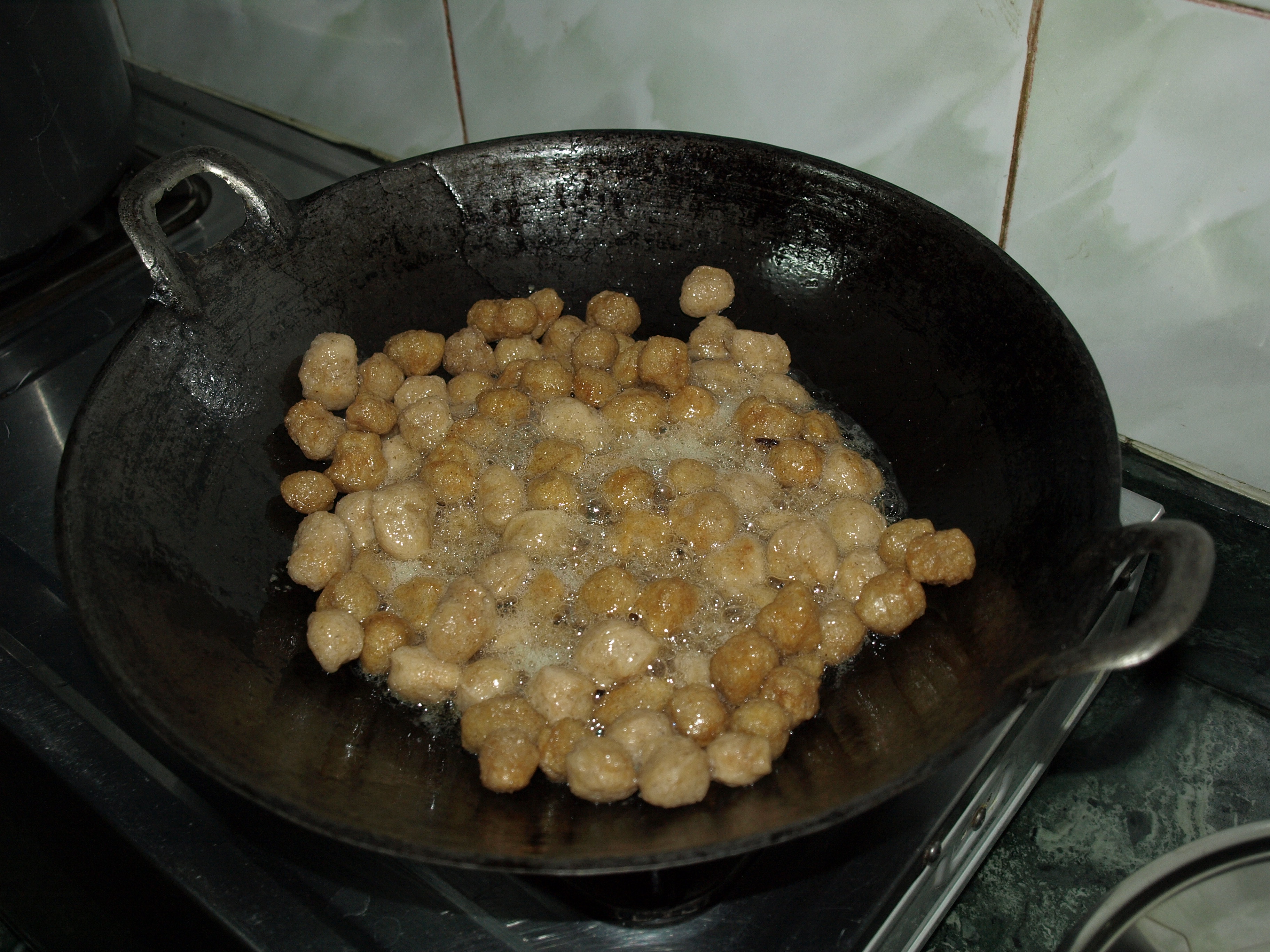 Masauras being stir-fried in oil.